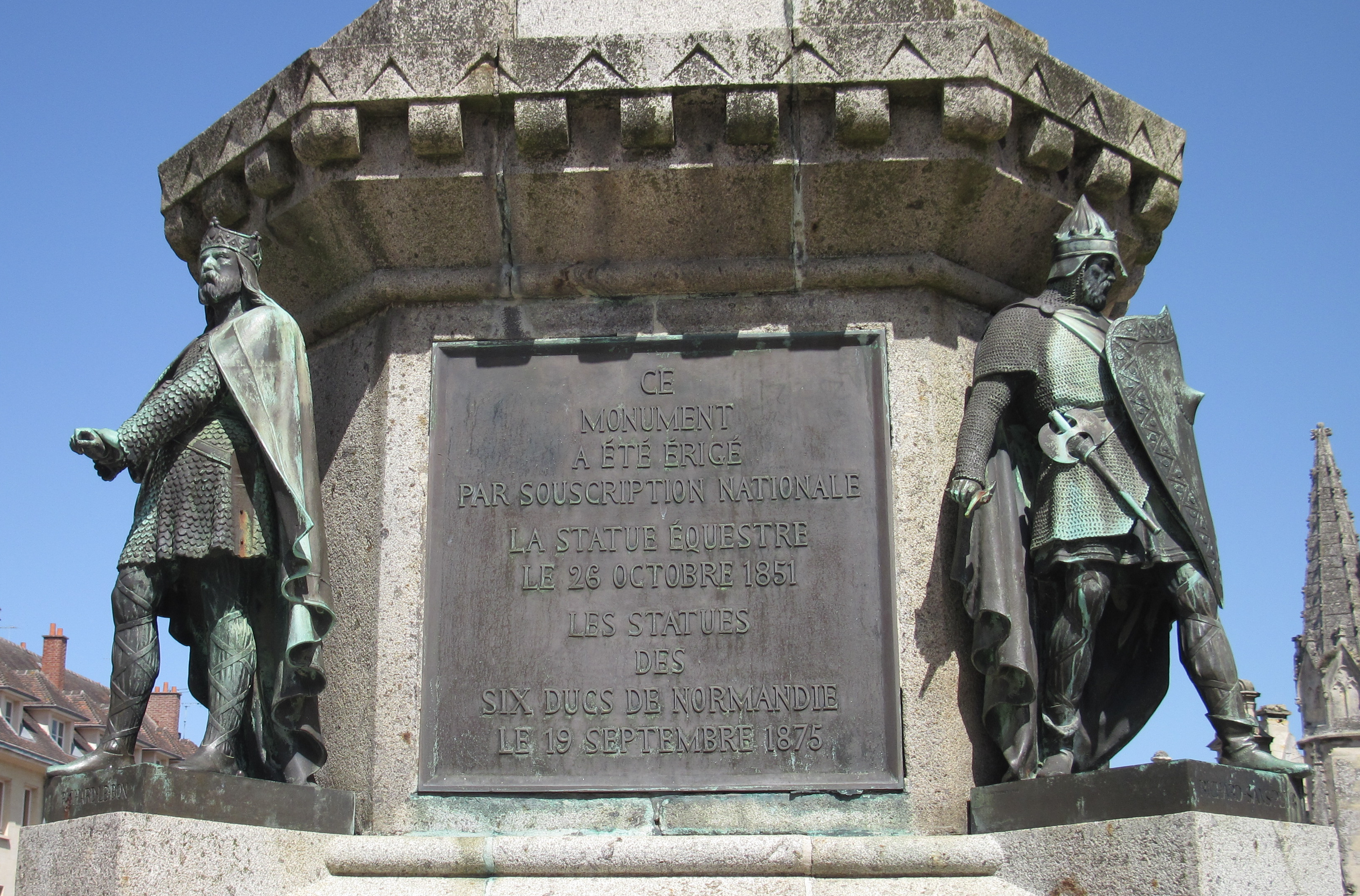 Monument to William the Conqueror at Falaise (Calvados, Basse-Normandie). The equestrian statue of the seventh Duke of Normandy, sculpted by Louis Rochet (1818-1873), was built in 1851. On the pedestal, statues representing the preceding six dukes were added in 1875.